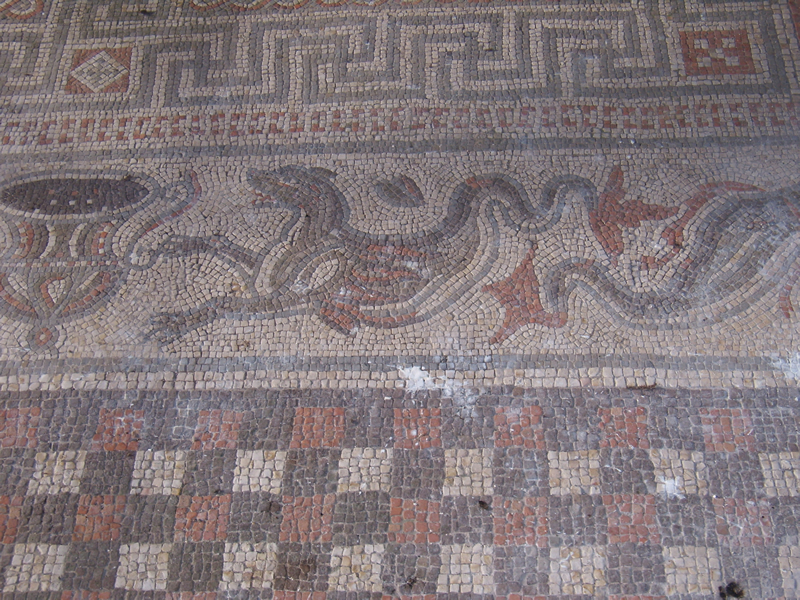 Roman villa, Littlecote, mosaic, detail